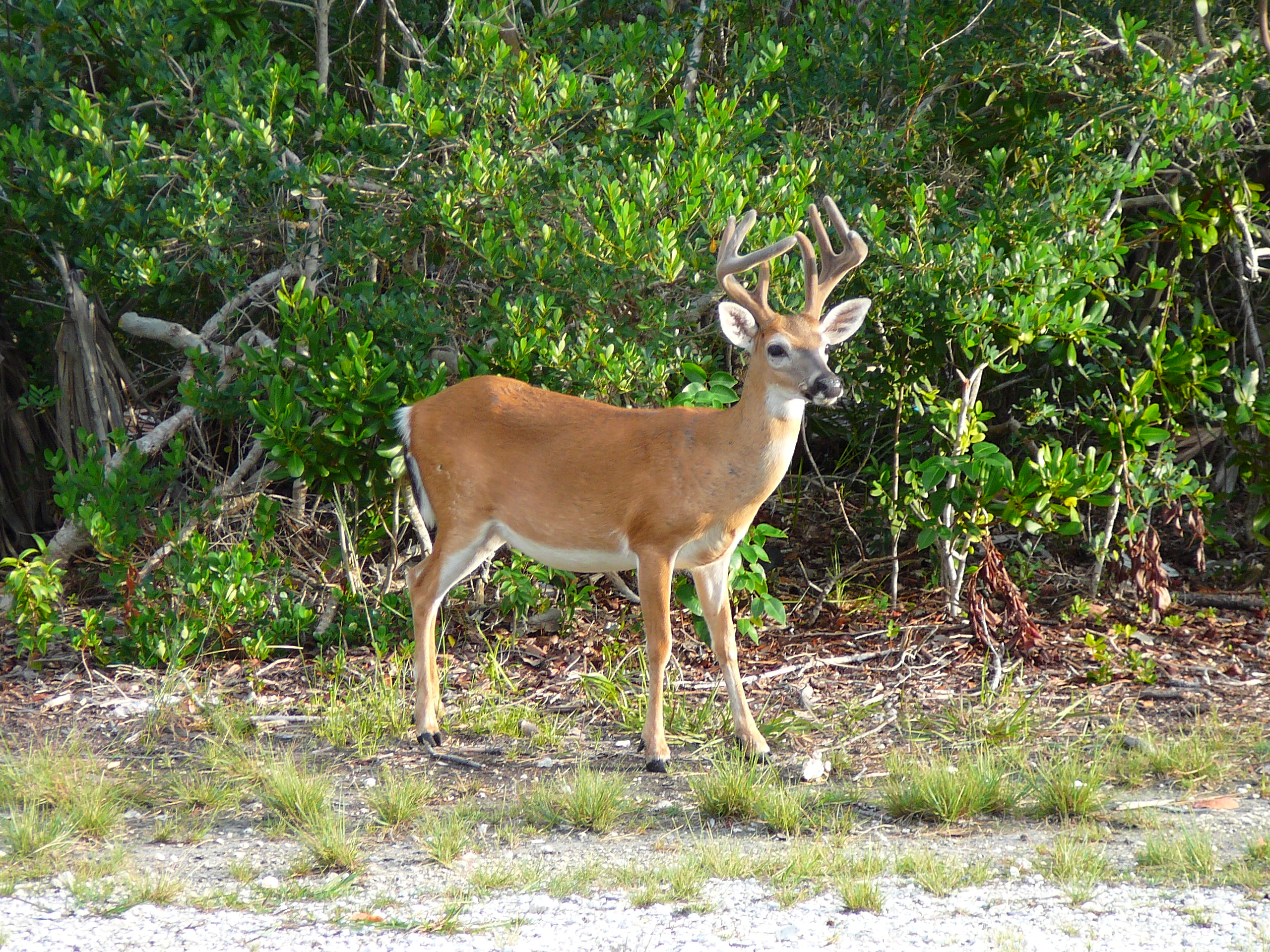 Digital photo taken by Marc Averette. Male key deer on No Name Key in the Florida Keys.